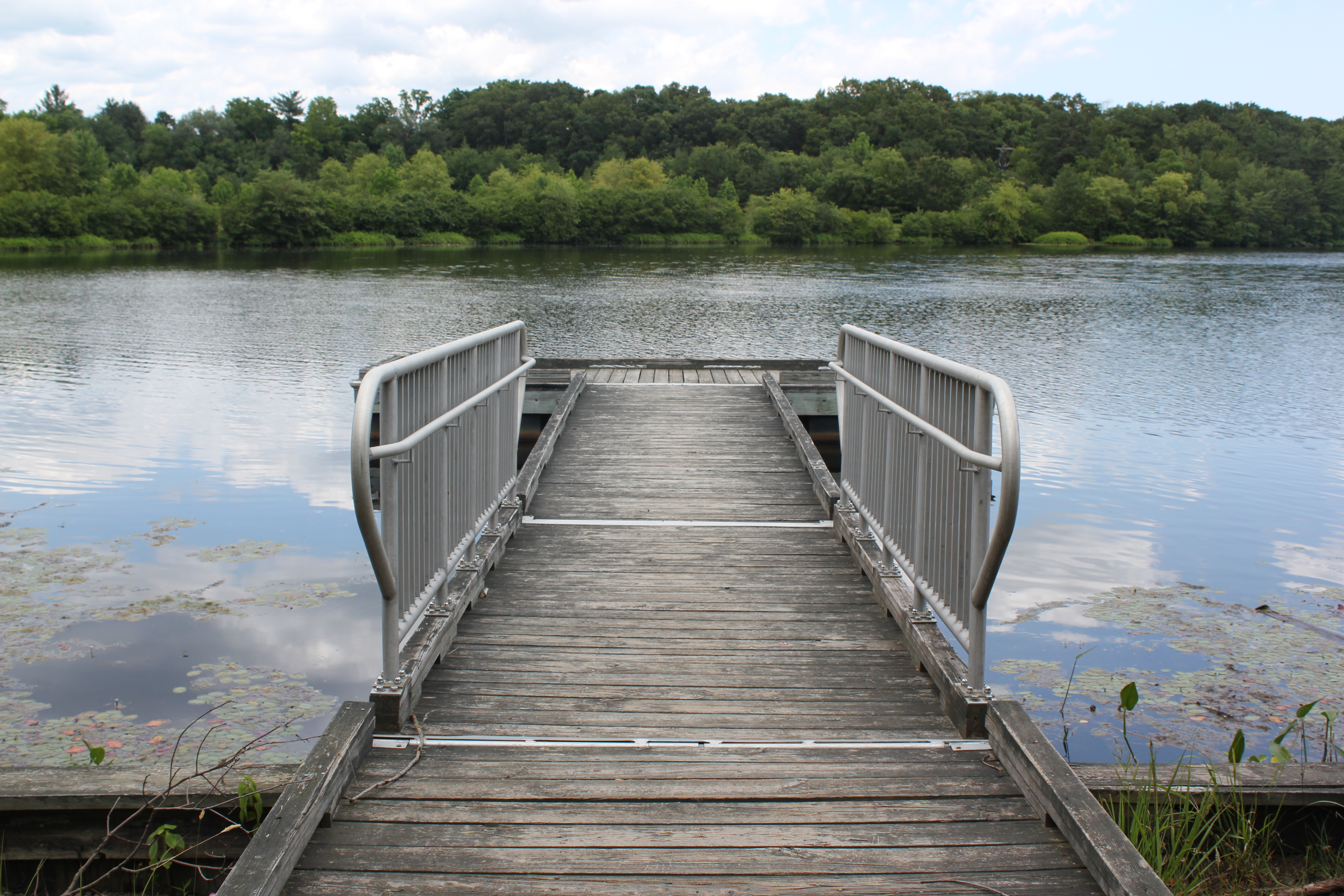 Gangway at Lake Shenandoah, Lakewood, New Jersey.